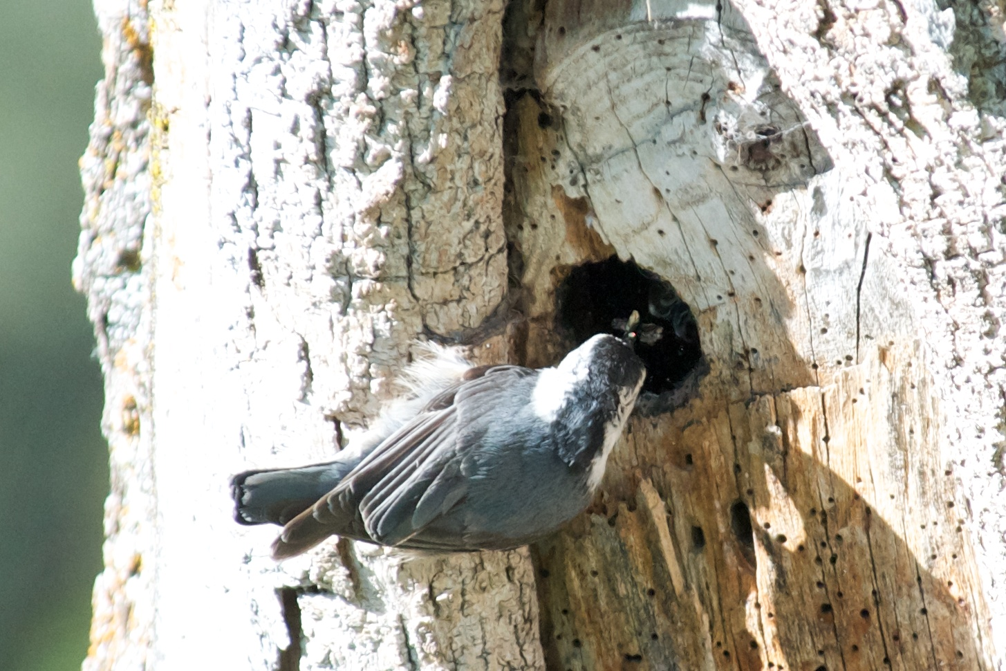 White-breasted Nuthatch (nesting) -NMP 6-11-12 3